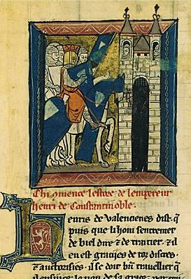 First page of Henri de Valenciennes's History of Emperor Henry of Constantinople in MS Fr. 12203